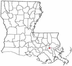 Map of Louisiana showing location of Norco